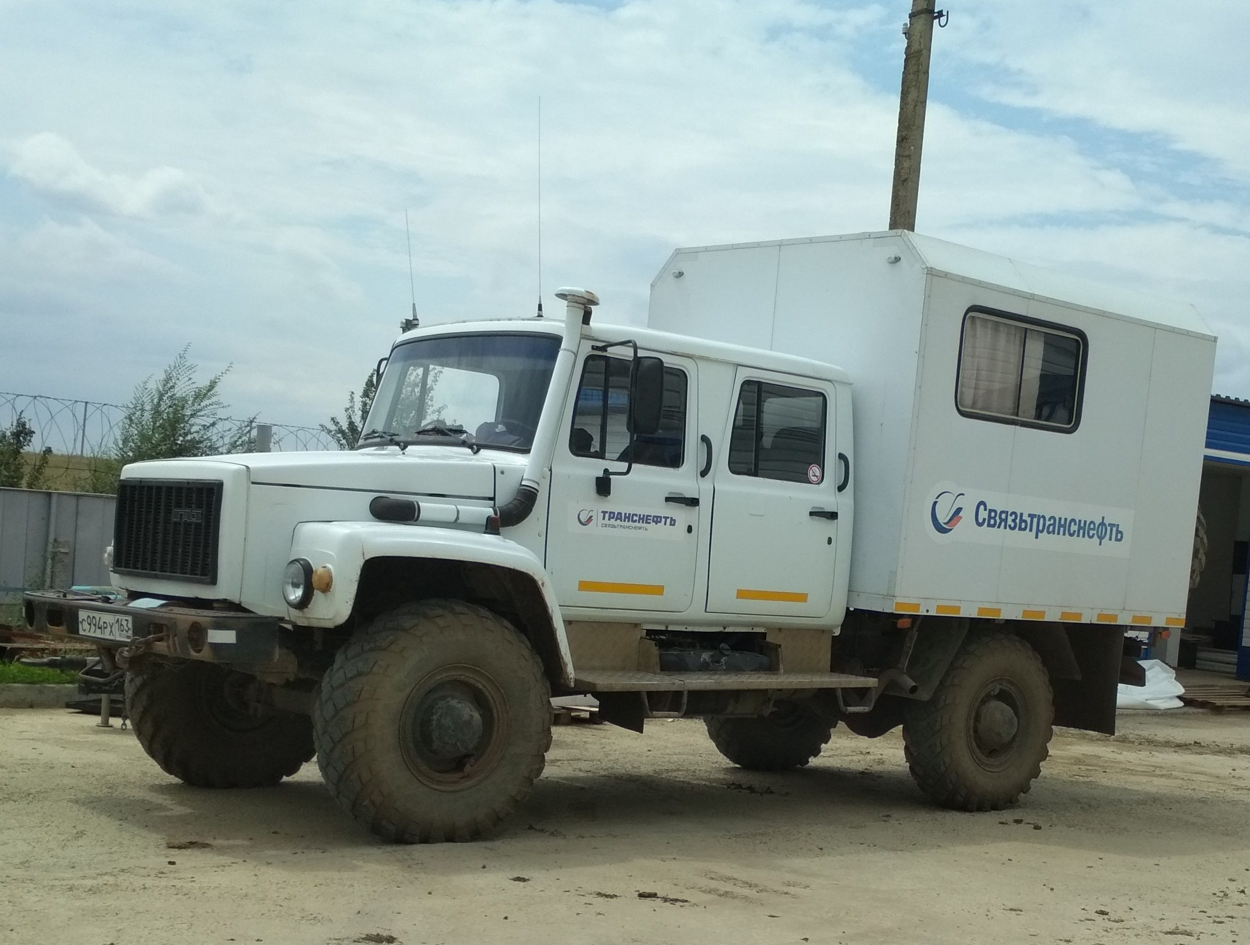 Mobile repair shop based on GAZ-33081 "Huntsman II"